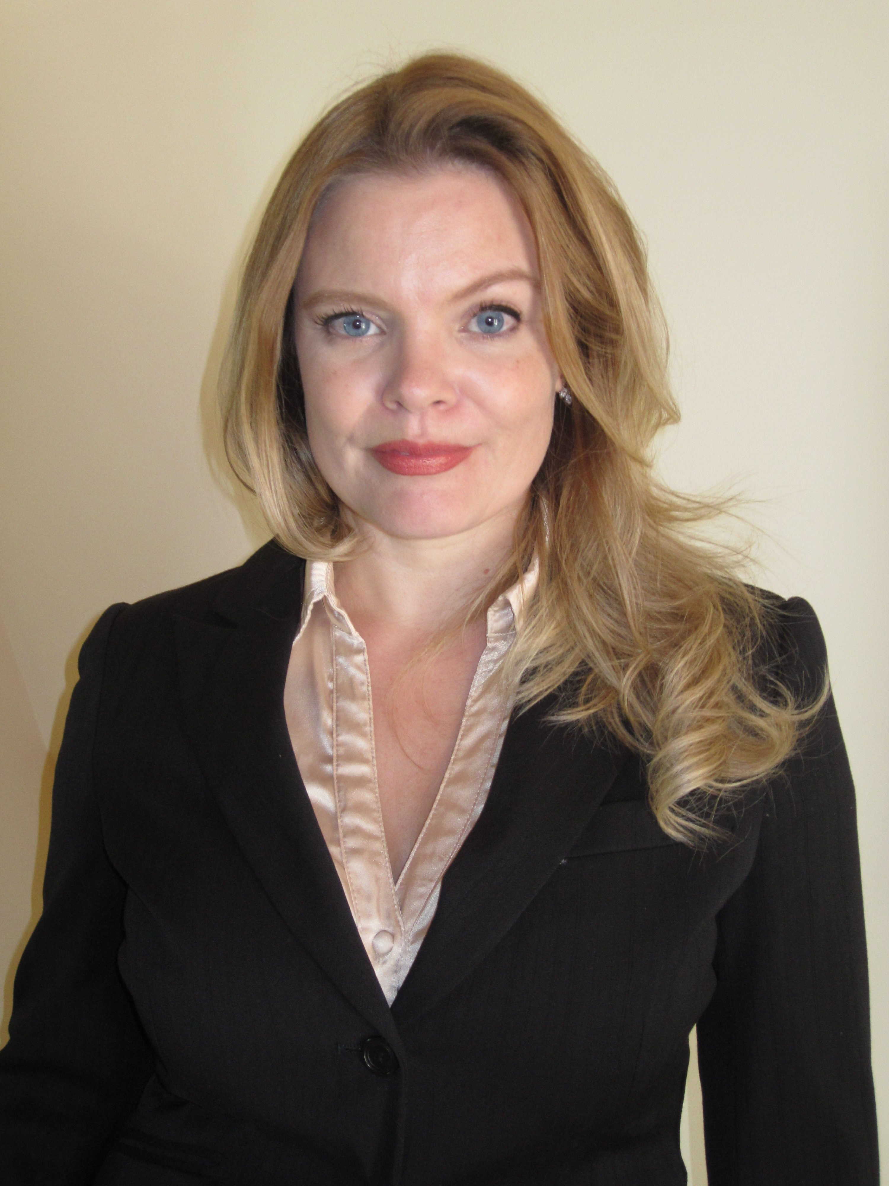 Annu Martilla